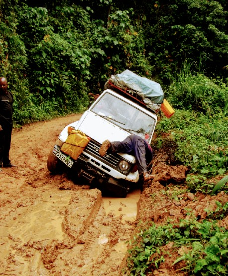 after a heavy rain we got stuck in mad and the driver trying to put big stones behind the tyres so that it stops slipperiness. This is an image with the theme "Africa on the Move or Transport" from: Democratic Republic of the Congo